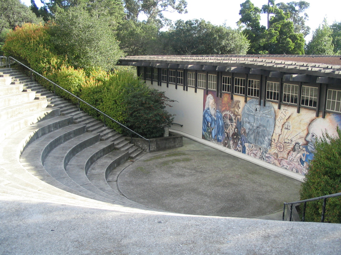 Piedmont High School Amphitheatre Photo taken February 23, 2007